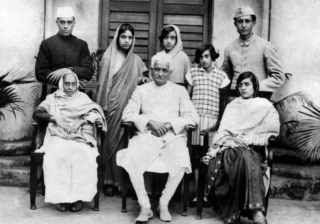 A Family group, from left seated: Swarup Rani Nehru, Motilal Nehru, Kamala Nehru. Standing: Jawaharlal Nehru, Vijaya Lakshmi Pandit, Krishna Kumari (Krishna Hutheesingh), Indira and R.S. Pandit